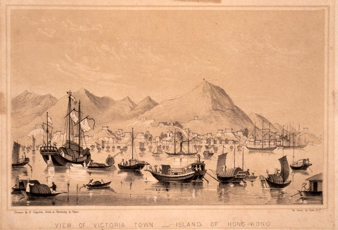 View of Victoria Town, Island of Hong Kong, 1850.